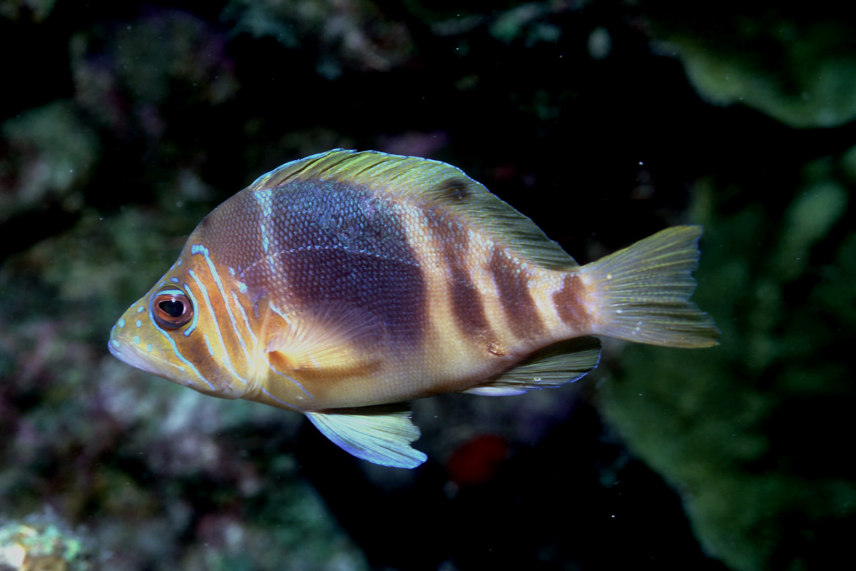 Left profile of a Barred Hamlet (Hypoplectrus puella). Curaçao, Netherland Antilles, Fuji Velvia 50